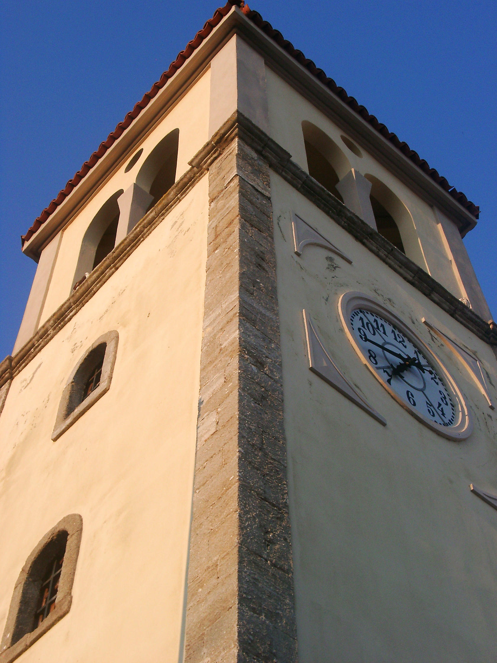 Cathedral tower in Preveza, Greece